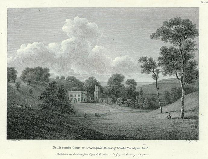 Nettlecombe Court in Somersetshire, the Seat of Sir John Trevelyn Bart." engraved by W.Angus after a picture by Smith, published in 1793. Copper engraved print, strong plate mark and good margins. Size 20 x 16 cms to plate mark, plus margins